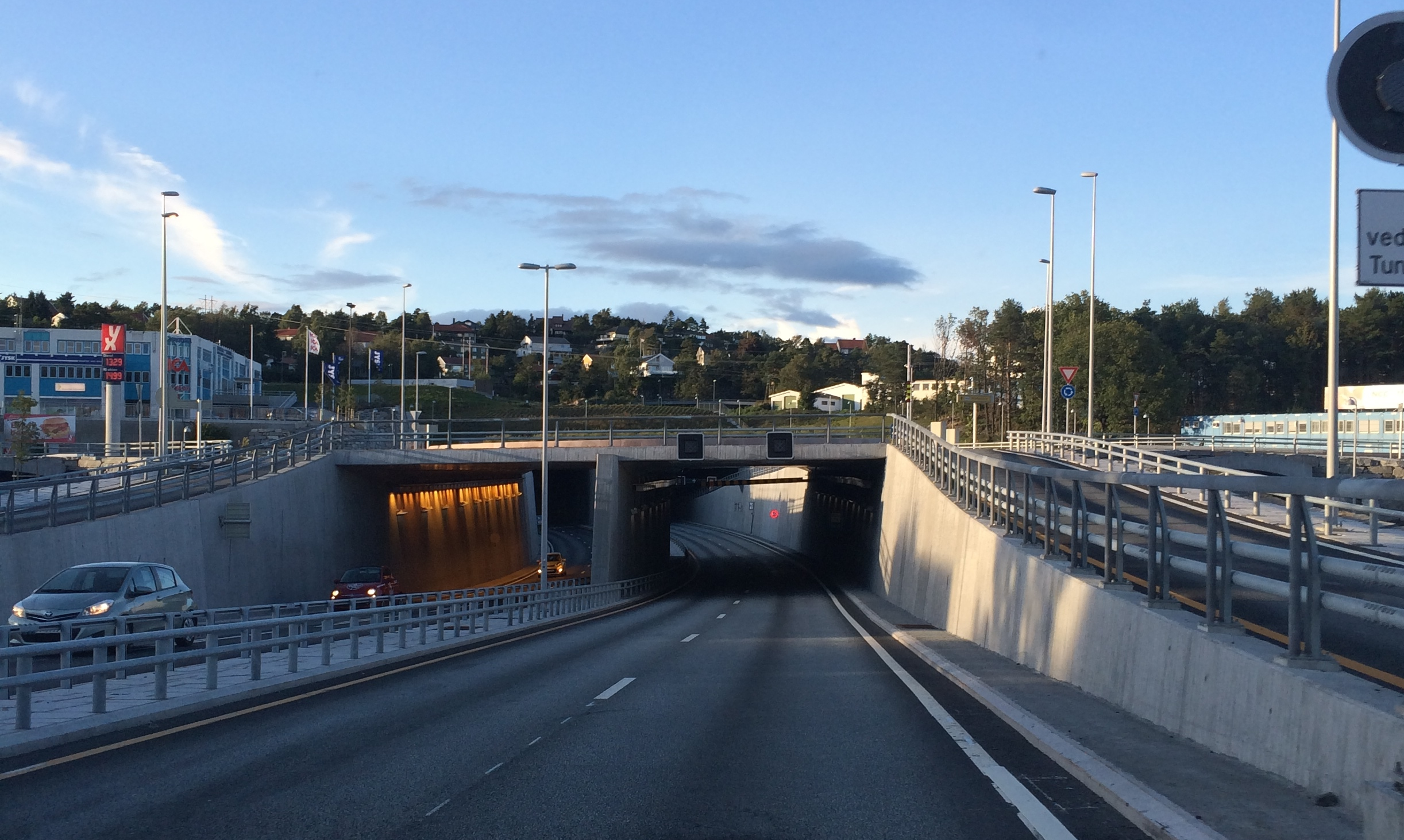 Vågsbygdtunnellen, Kristiansand